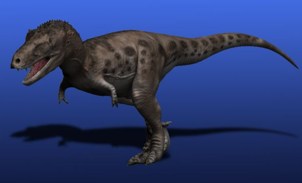 Bihastieversor